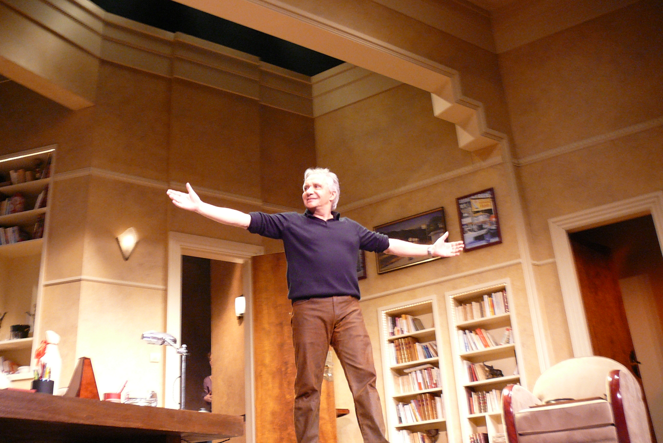 The actor Michel Sardou, on the Théâtre des Variétés stage, in Paris (France), in Secret de famille, written by Eric Assous